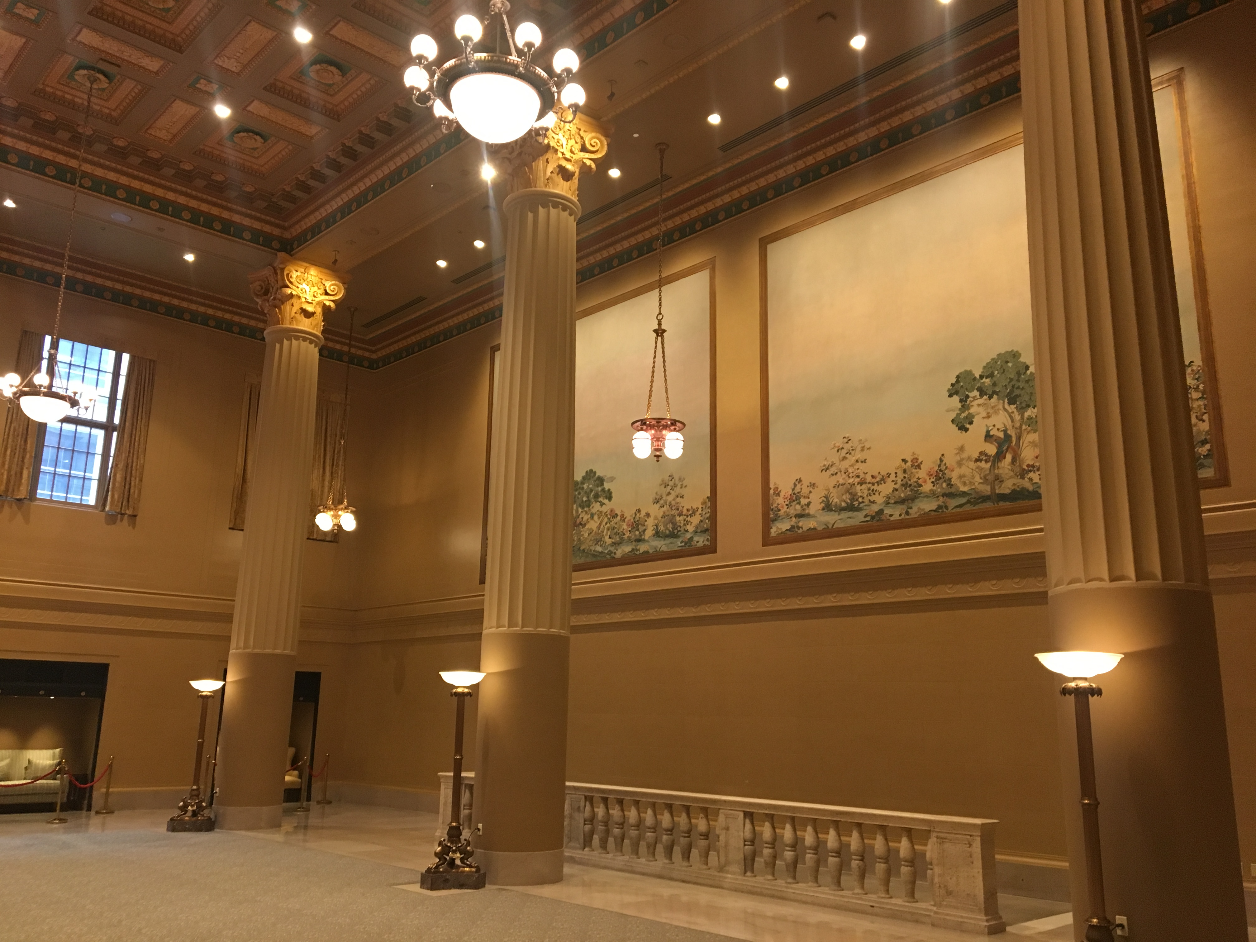 Union Station, Chicago, Illinois.